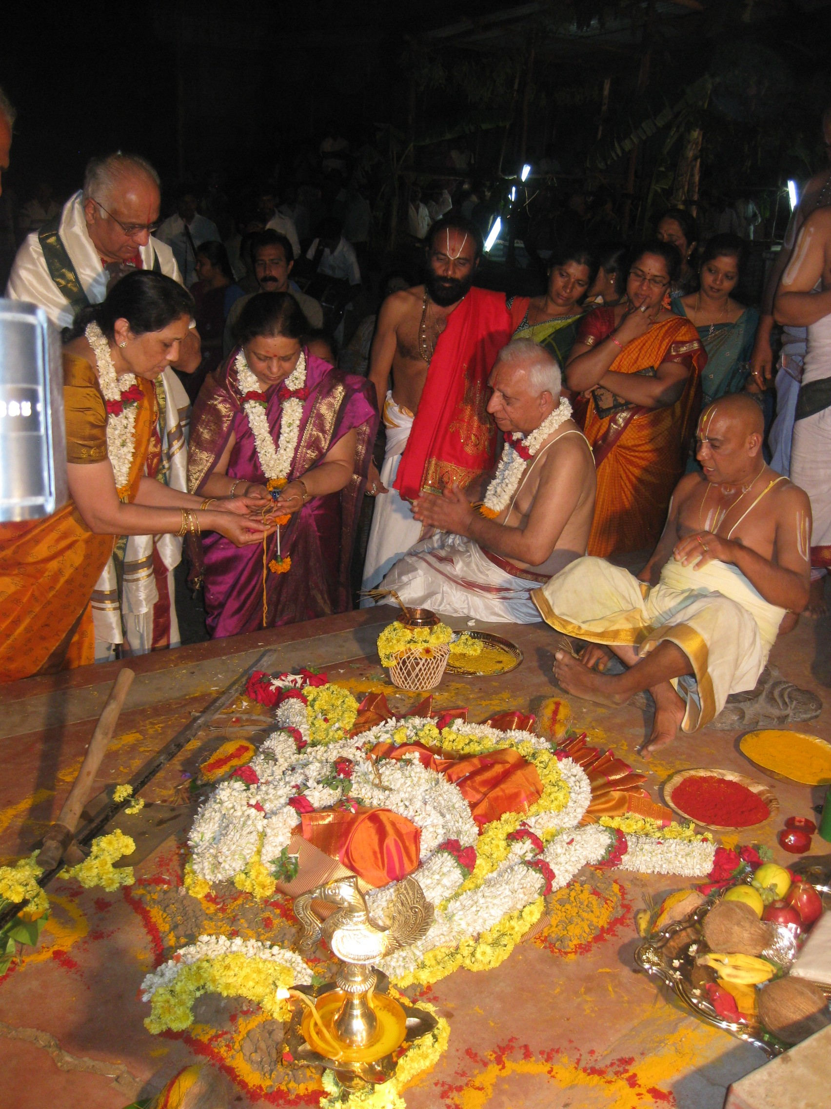 First day of rituals of Kumbhabhishekam of restoration of Gunjanarasimha Swamy temple